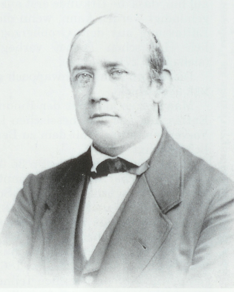 Bernard Altum (1824-1900), German zoologist, ornithologist and forestry scientist / Bernard Altum (1824-1900), deutscher Zoologe, Ornithologe und Forstwissenschaftler